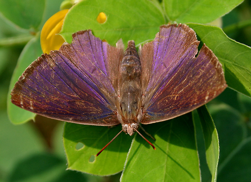 Leaf Blue Amblypodia anita (syn. Horsfieldia anita) at Ananthagiri Hills, in Rangareddy district of Andhra Pradesh, India.